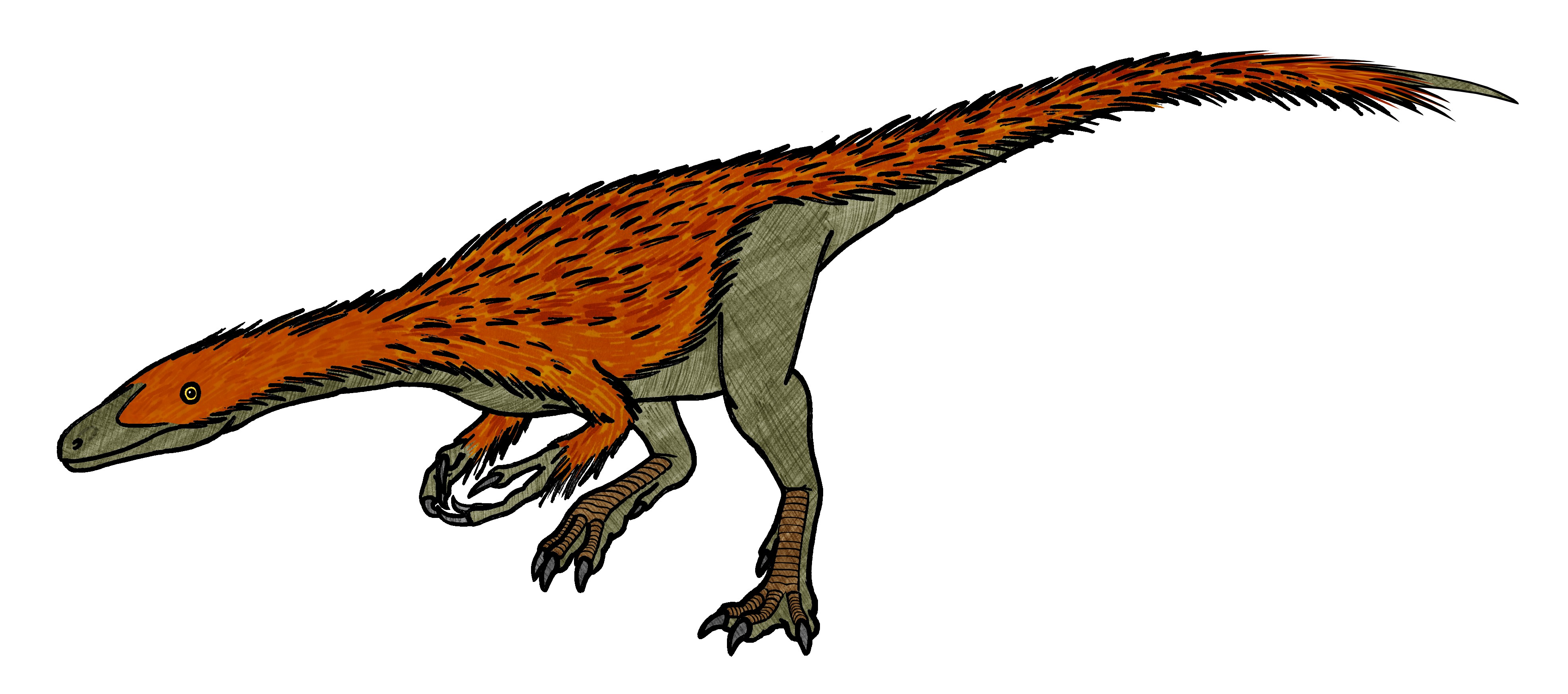 Coelurus was a coelurosaurian dinosaur, that lived in the late jurassic period, North America.